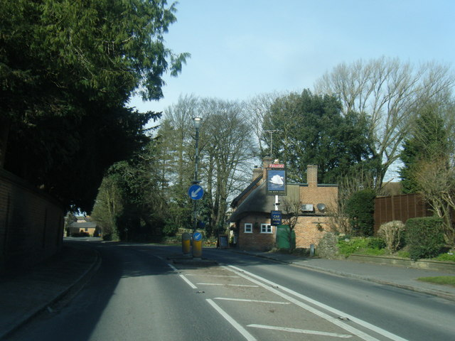 A413 at The White Swan, Whitchurch